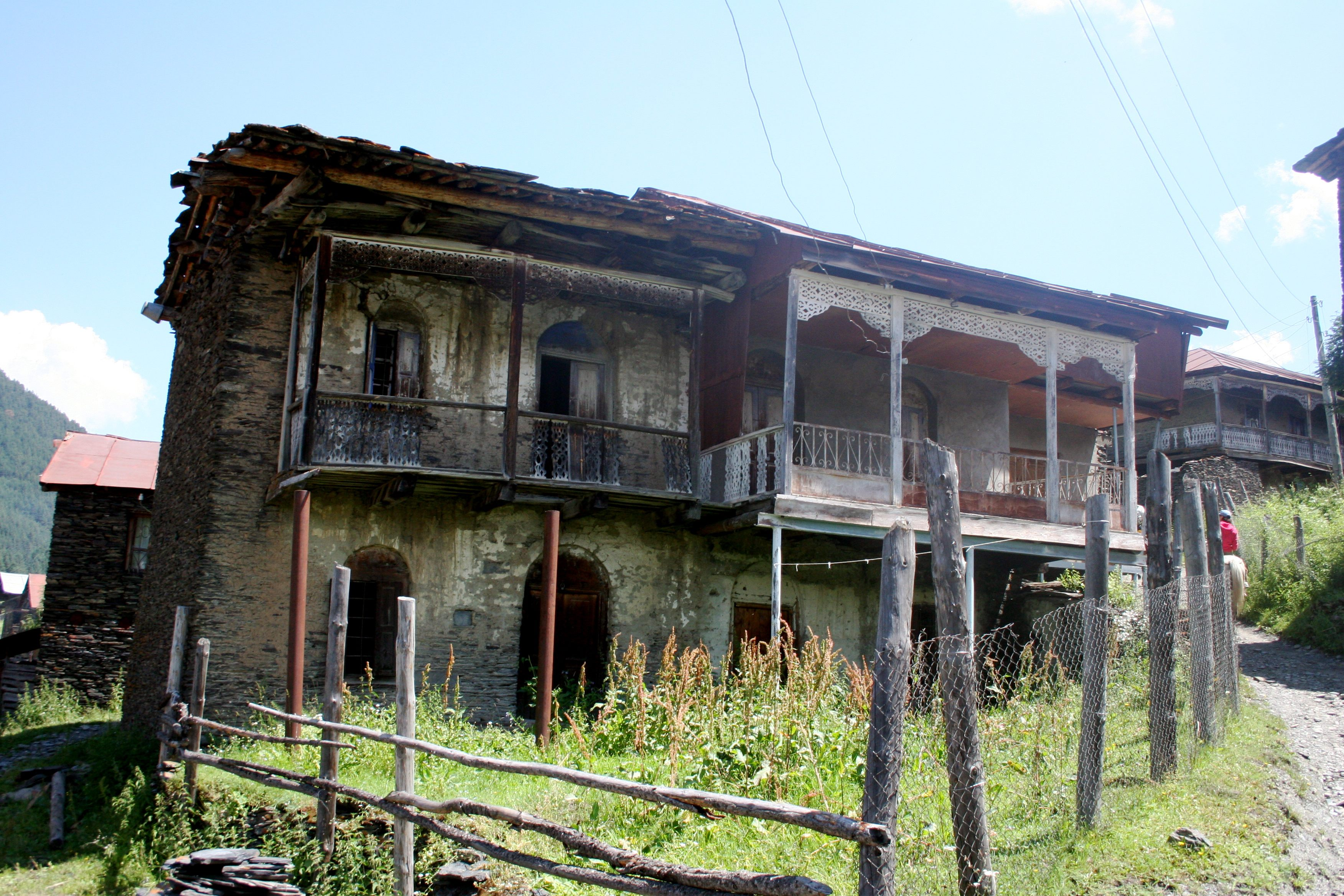 Traditional House in Shenaqo, Tusheti (Georgia Republic)